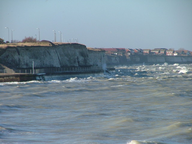 The Kent coast, looking across Westgate Bay towards Epple Bay